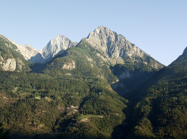 A mislabeled photo of Becca di Nona, south of Aosta in Italy. Monte Emilius is barely visible to its left. Picture taken by user Idefix august, 2006